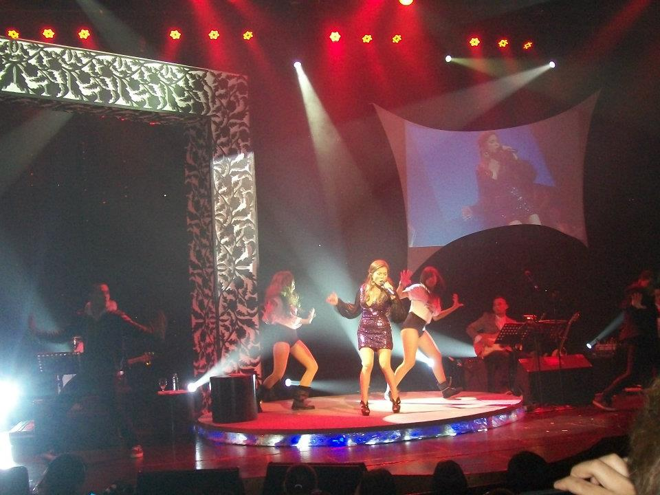 Nina performing "Staying Alive" in her pre-Valentine Concert "Update Your Status.. at the Music Museum on February 13, 2012.